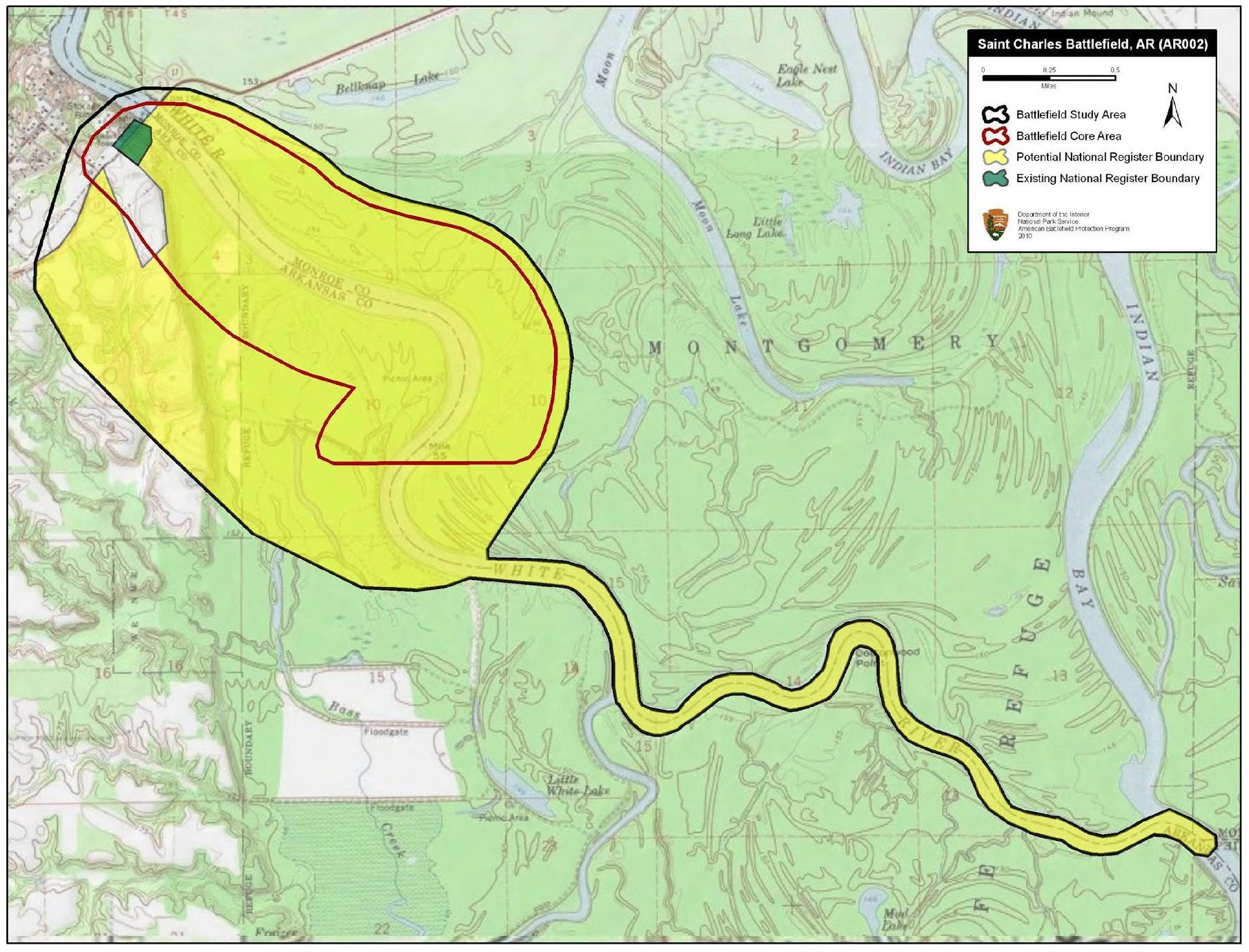 Map of battlefield core and study areas. Southeast of the town of Saint Charles, the Study Area was narrowed to the historic width of the White River. The Study Area was widened approximately 2.5 miles below the location of the Confederate batteries in Saint Charles; this is approximately where the 46th Indiana disembarked and proceeded on foot toward the town. The Core Area was revised to illustrate the firing ranges of the Union gunboats, which fired onto the river shore two miles below the Confederate batteries. The gunboats continued to fire onto the shore until they reached and attacked the batteries.